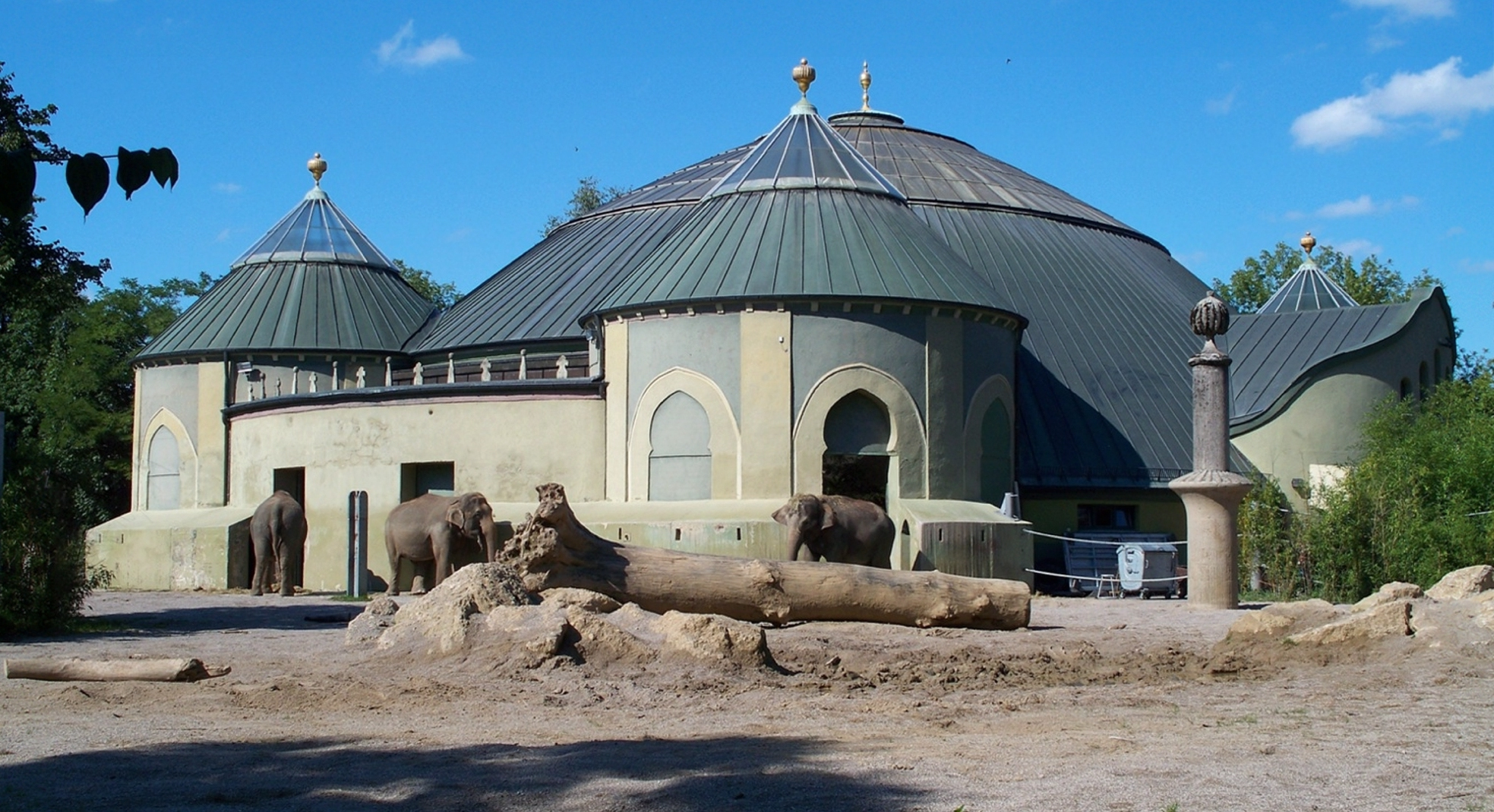 The elephant house of the Tierpark Hellabrunn in Munich, that was built in 1914.